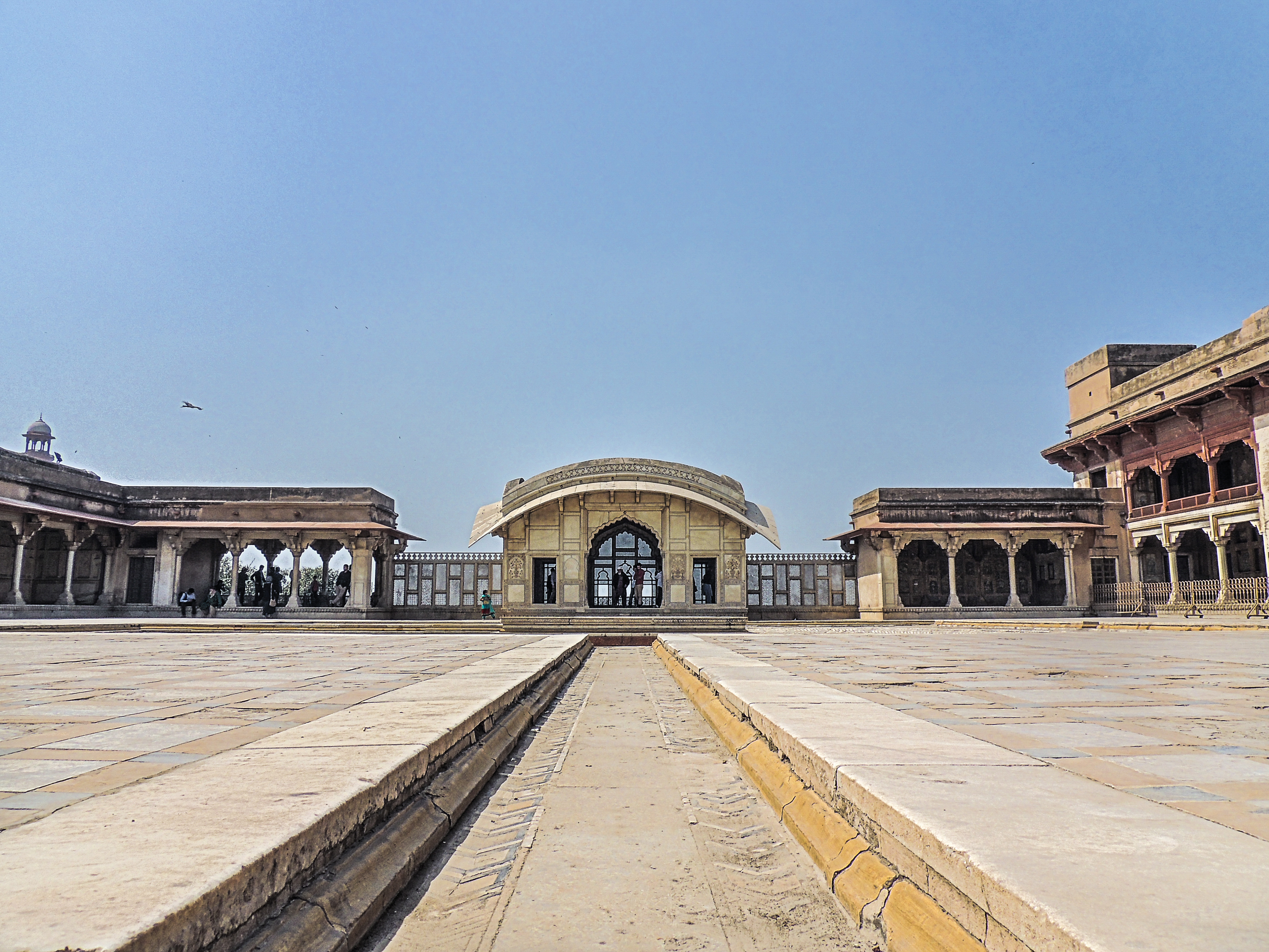 Lahore Fort complex (including Moti Masjid, Naulakha Pavilion, Sheesh Mahal and others) This is a photo of a monument in Pakistan identified as the PB-67